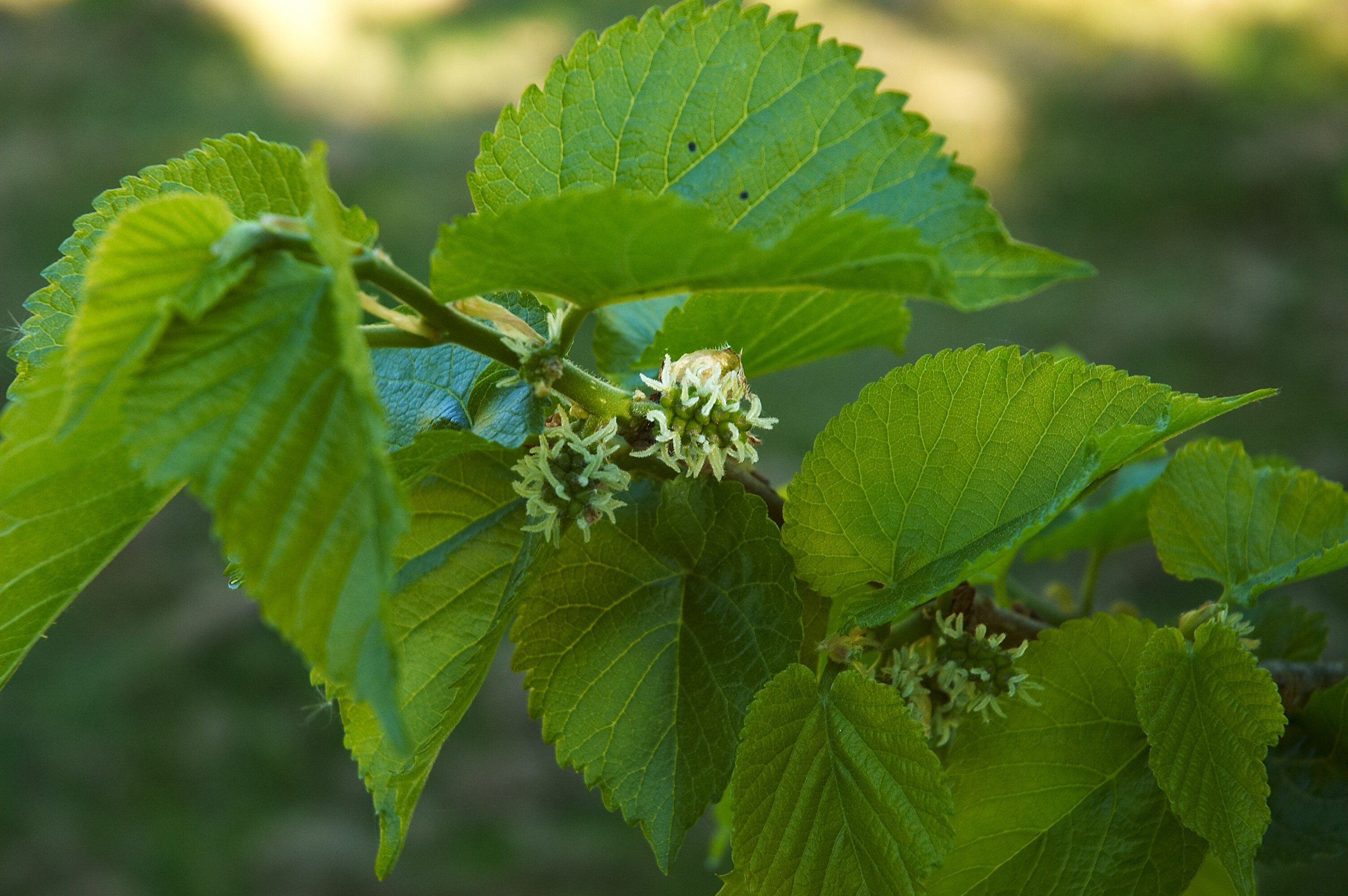 Black Mulberry flowers. Photo taken in Belgium